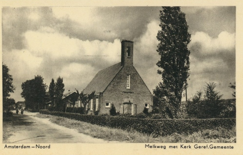 Old postcard of Amsterdam.